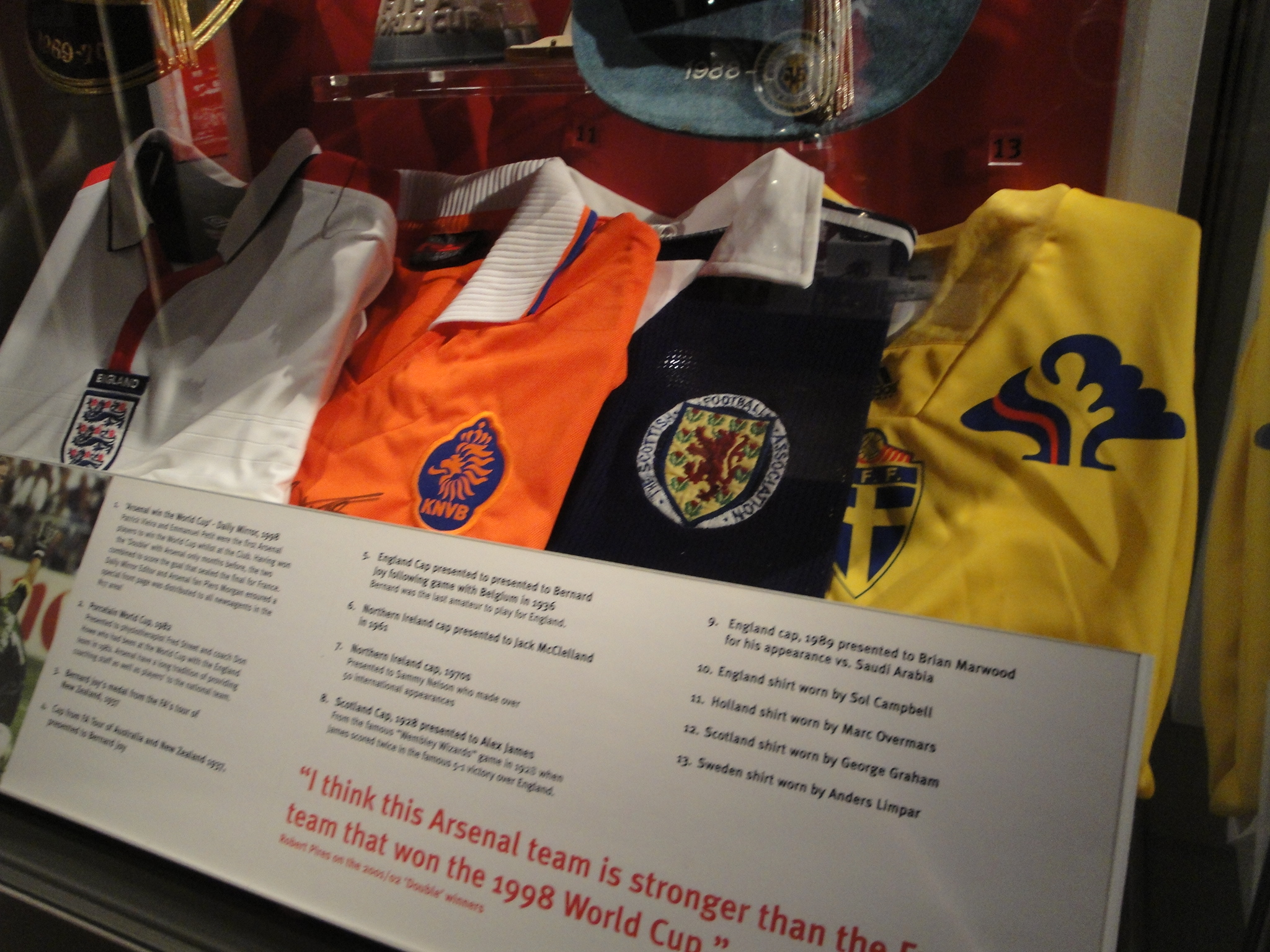 Four international football shirts worn by former Arsenal players Sol Campbell, Marc Overmars, George Graham and Anders Limpar for their respective nations.